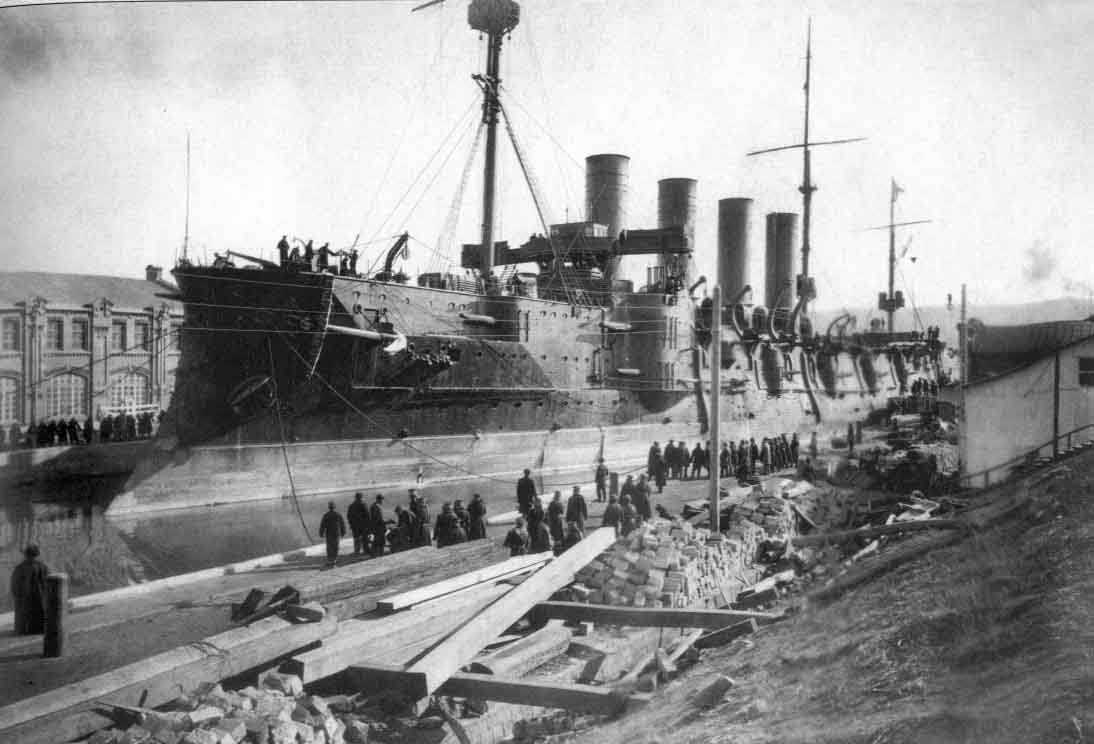 Imperial Russian armoured cruiser Gromoboi on a dock at Vladivostok.